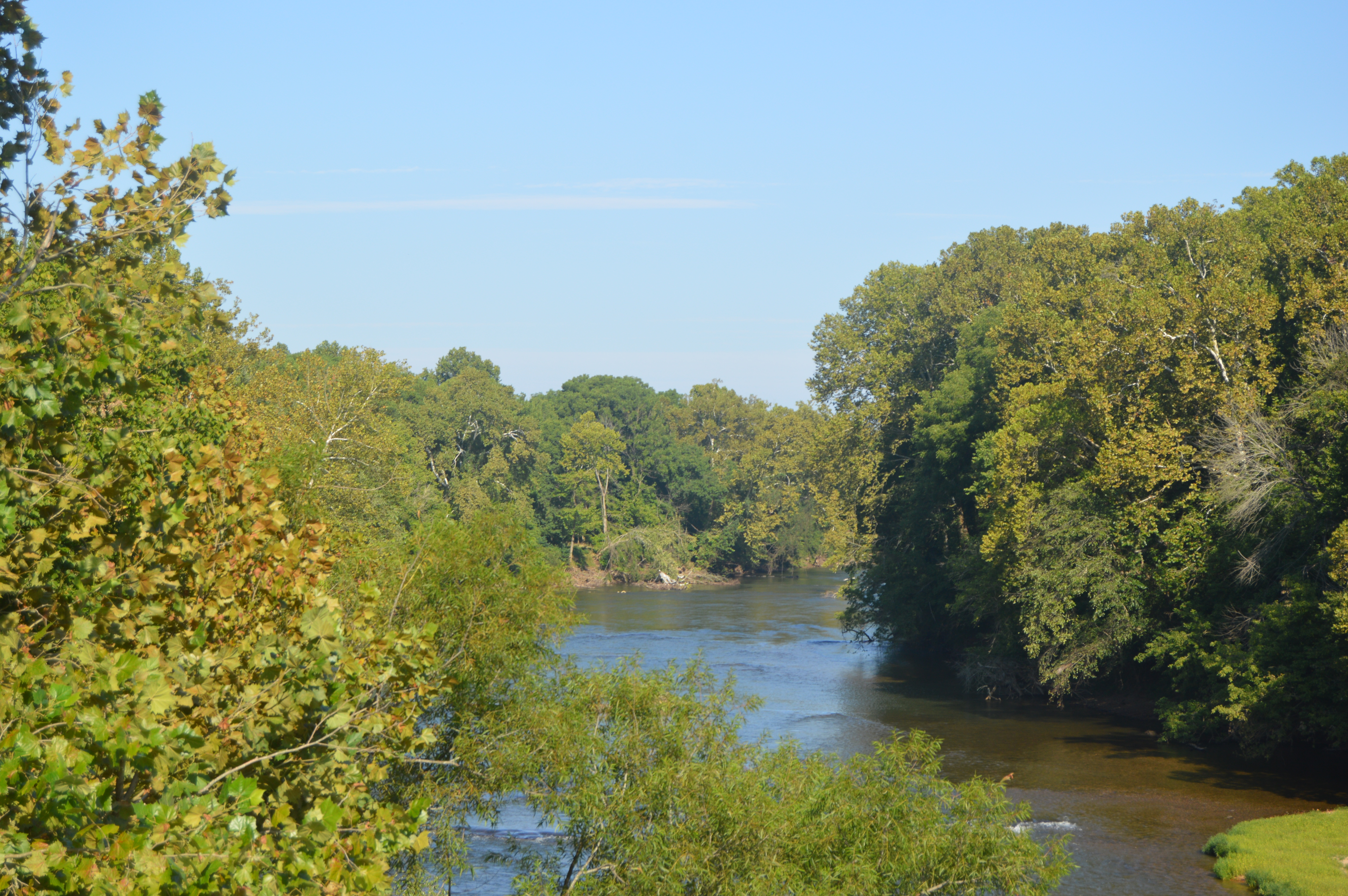 Looking up the Roanoke River toward the Cat Rock Sluice from the U.S. Route 501 bridge at Brookneal, Virginia, United States. The sluice is listed on the National Register of Historic Places.